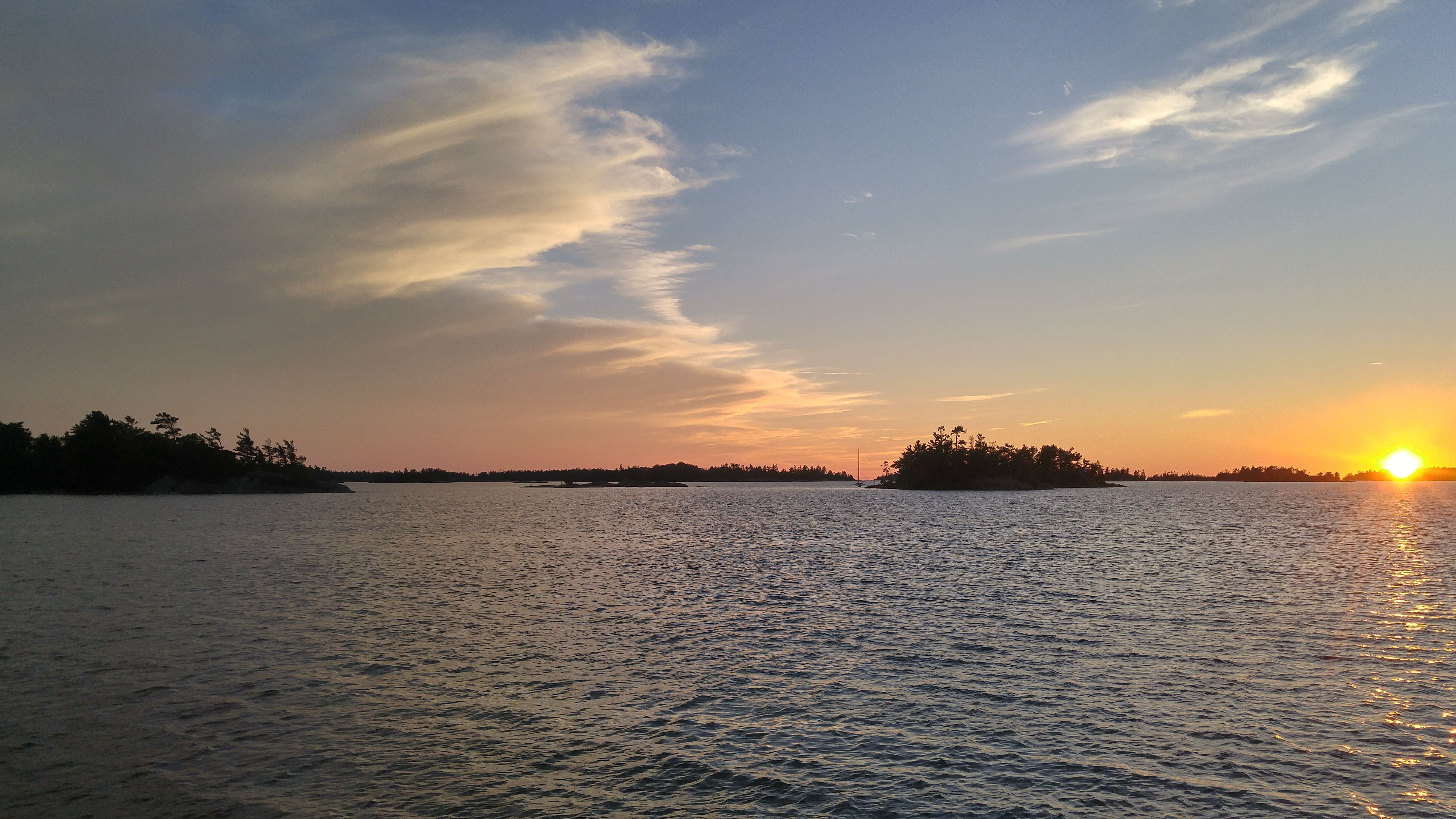 Heaven on Earth